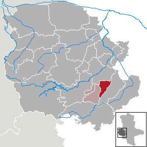 Rieder in Saxony-Anhalt - District Harz